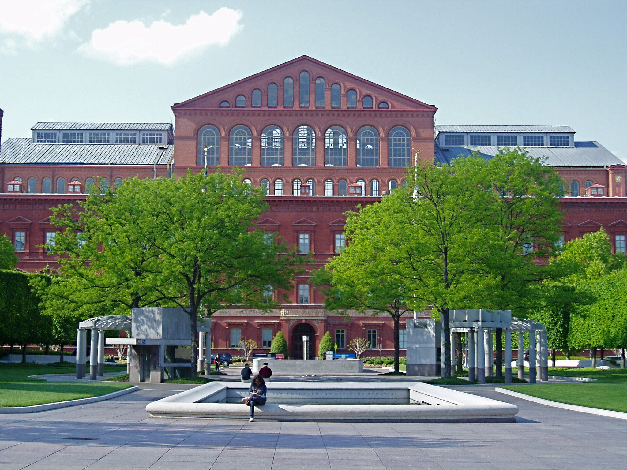 National Building Museum (previously the Pension Building) in Washington, D.C.